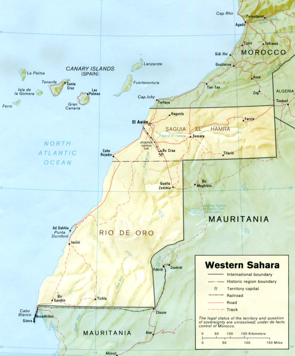 Shaded Relief Map of Western Sahara